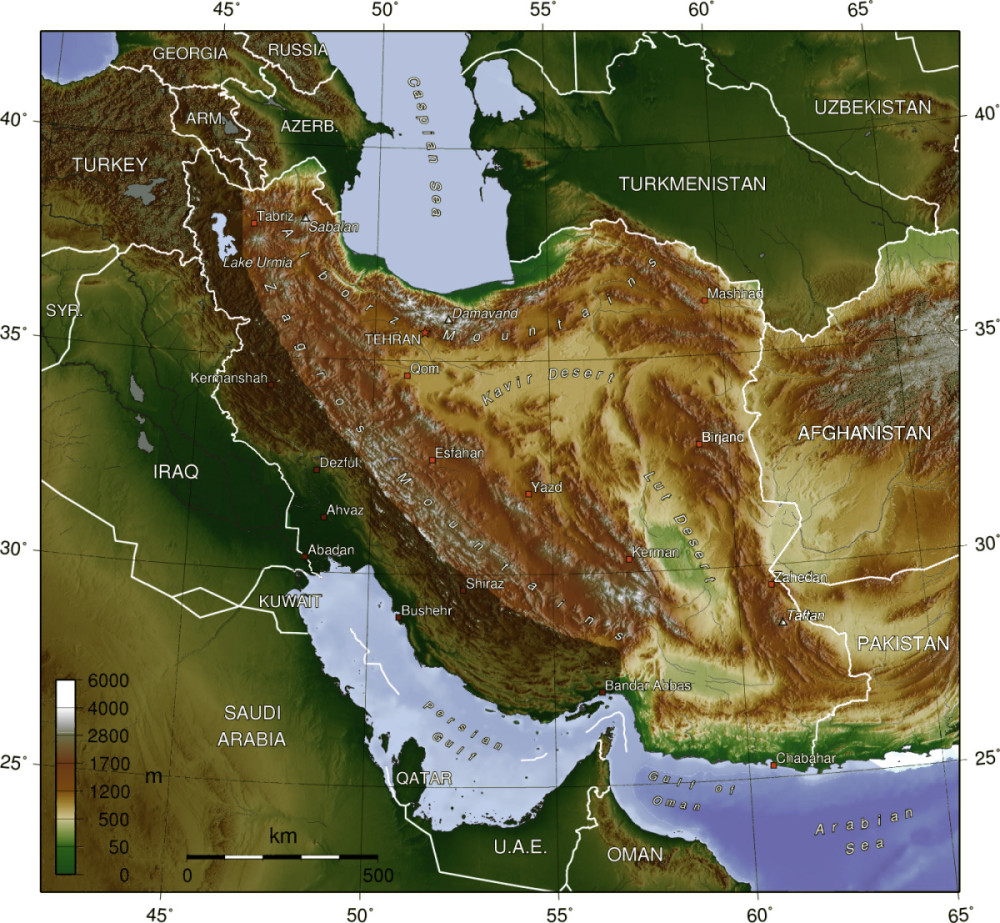 The Iranian plateau, or Persian plateau , is in southern Western Asia and Central Asia. The Iranian plateau is centered in Iran, and connects to Anatolia in the west and the Hindu Kush and Himalaya in the east.